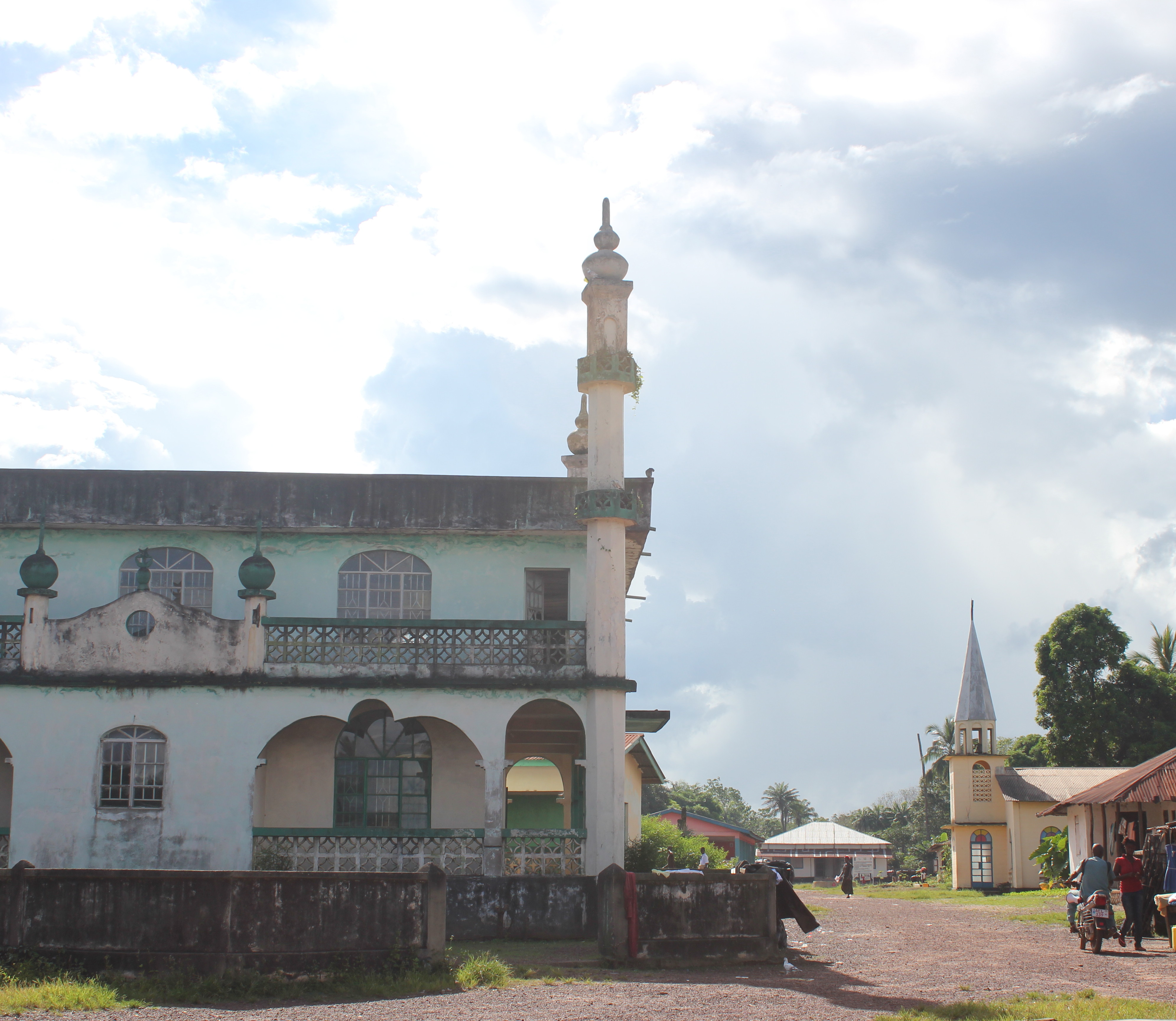 Gbendemdu Mosque and Church on your left as you go to Outamba-Kilimi National Park in Sierra Leone